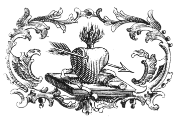 Seal of the Order of Saint Augustine, printed at its Constitutions, Venice, 1777